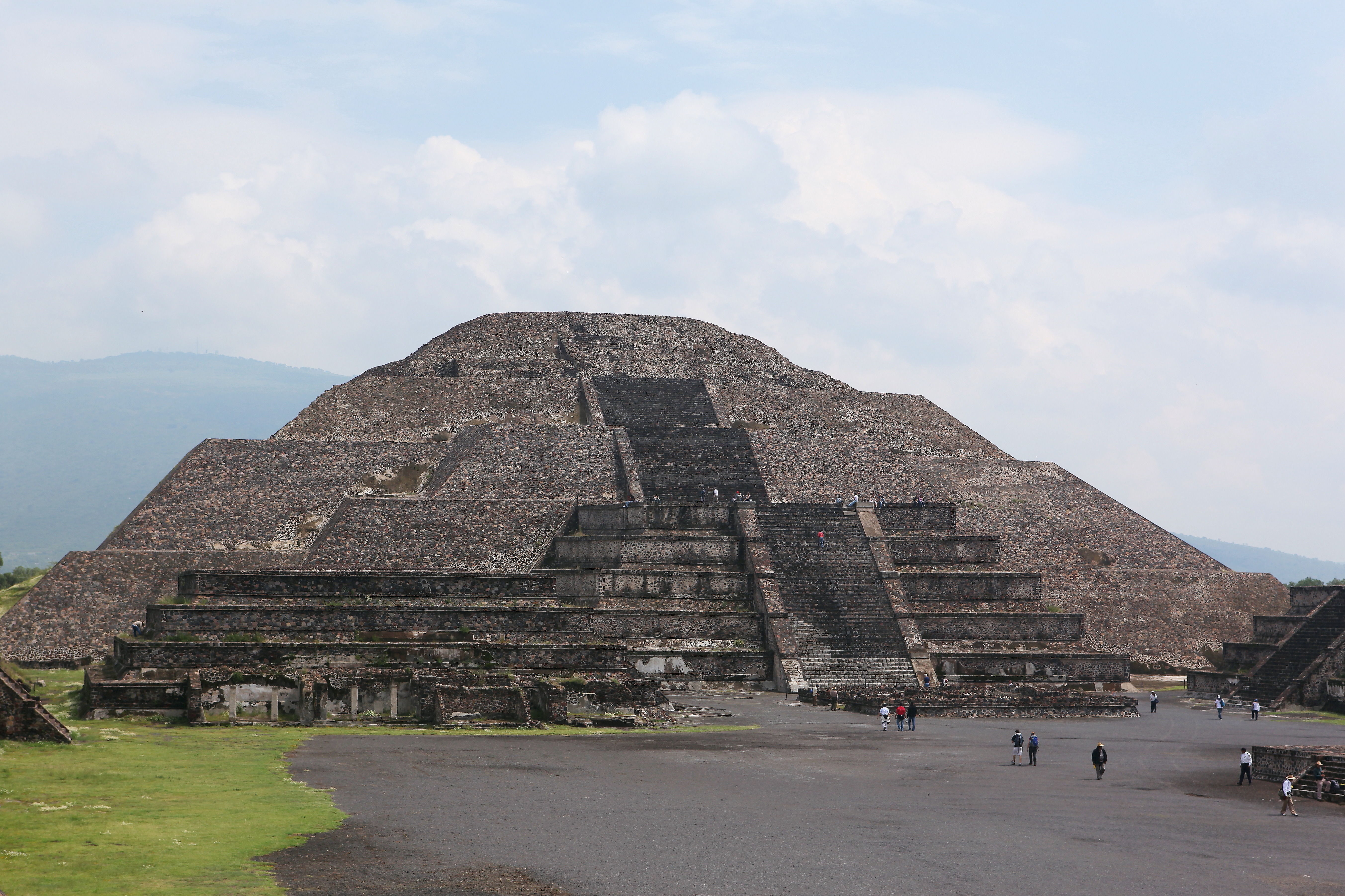 The Pyramid of the Moon in Teotihuacan, México